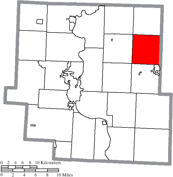 Map of the municipal and township boundaries of Muskingum County, Ohio, United States, as of the 2000 census, with the location of Highland Township highlighted. Township borders are shown only in unincorporated areas in order to differentiate incorporated and unincorporated areas more clearly.